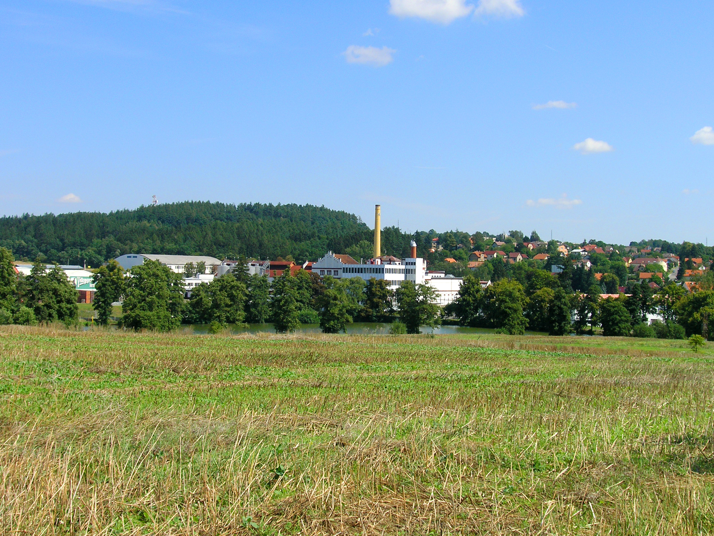 West view to brewery in Velké Popovice, Czech Republic